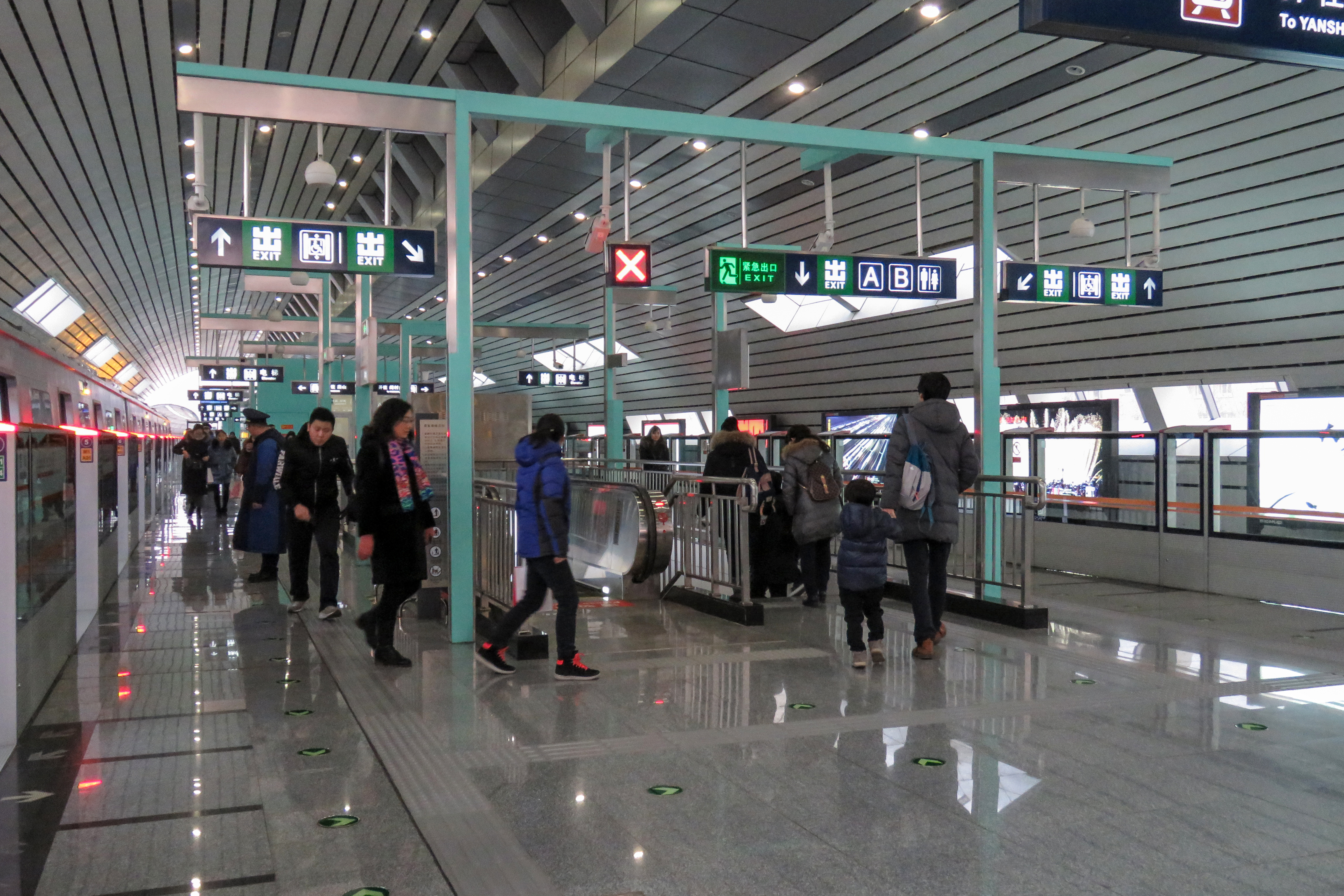 A torii-like gate in SML16 color. Xingcheng is a residential community of Yanshan Petrochemical Group.